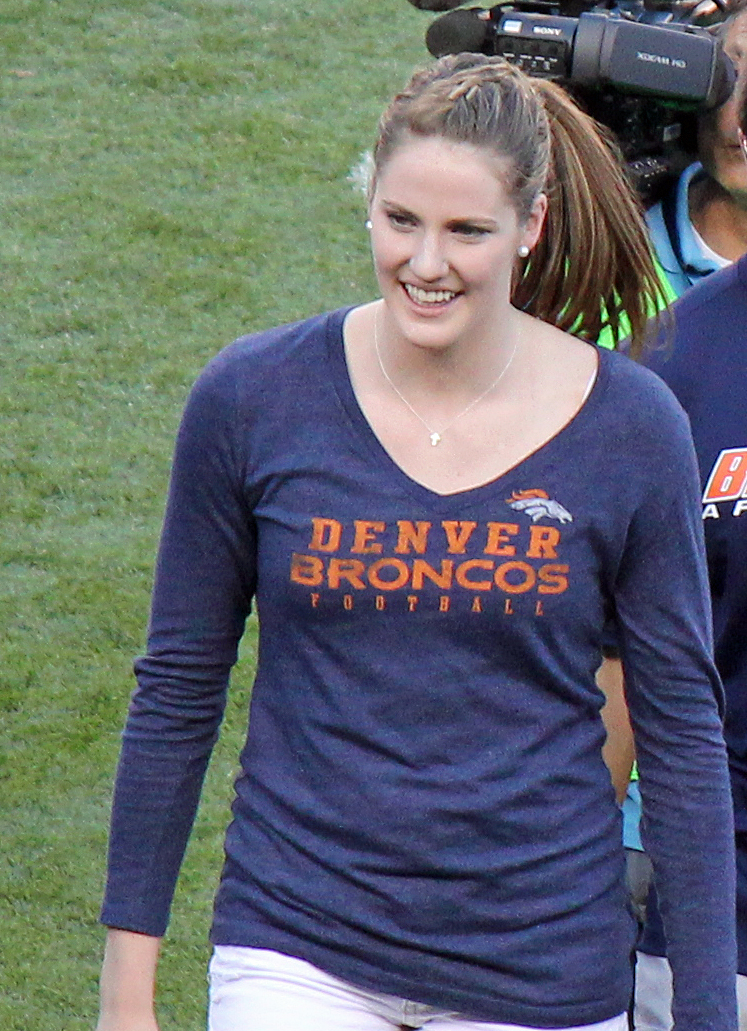 Missy Franklin. She attended an American NFL football game between the Denver Broncos and the Pittsburgh Steelers on 2012-09-09 and was introduced to the crowd before the game. This picture was taken from the stands as she was walking off the field.